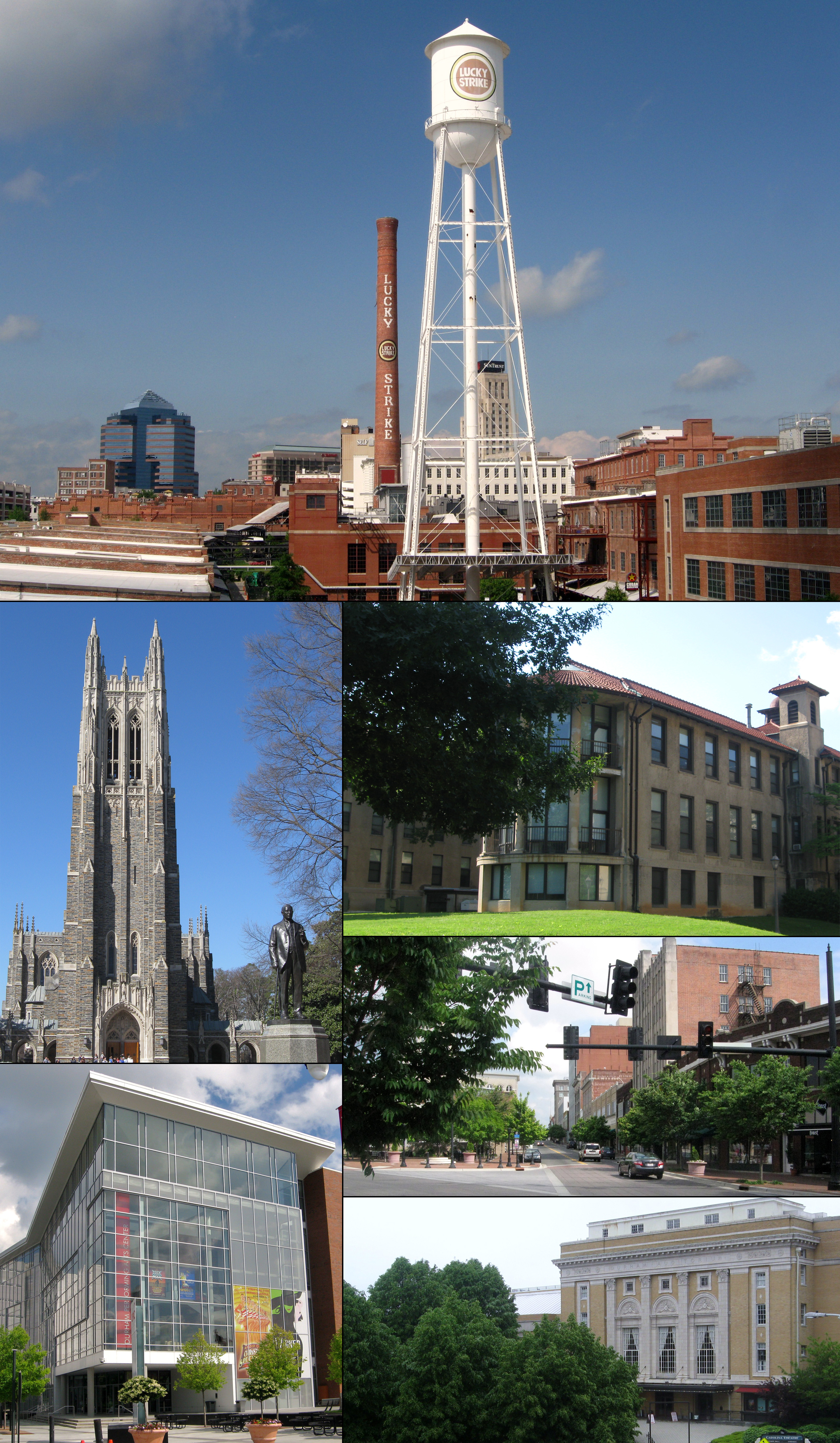 Clockwise from top: Durham skyline, North Carolina School of Science and Mathematics, Five Points, Carolina Theater, Durham Performing Arts Center, Duke Chapel